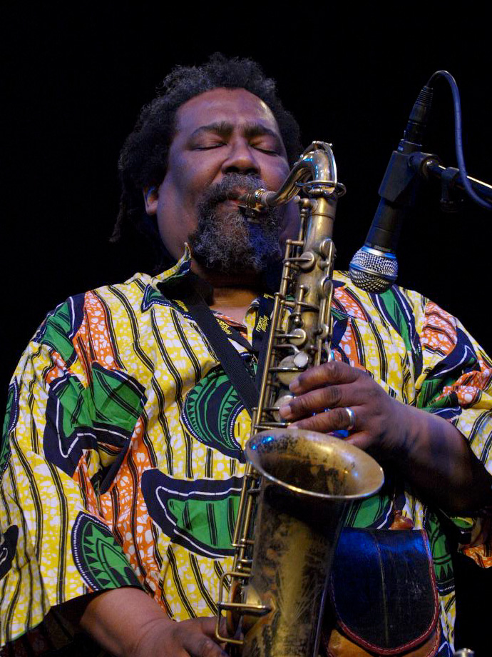 Sabir Mateen, moers festival 2008